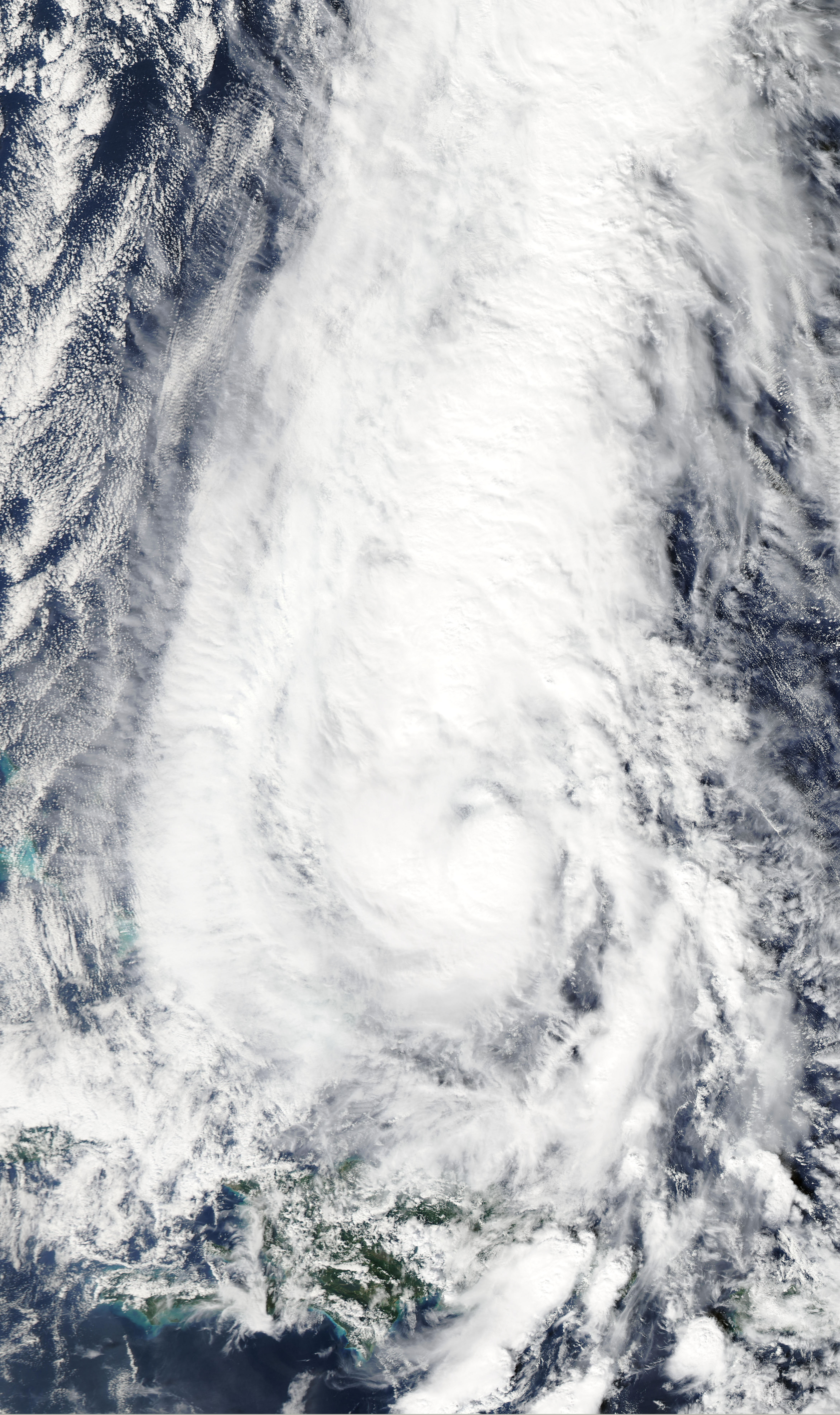 Tropical Storm Tomas weakening in the open Atlantic on November 6, 2010.